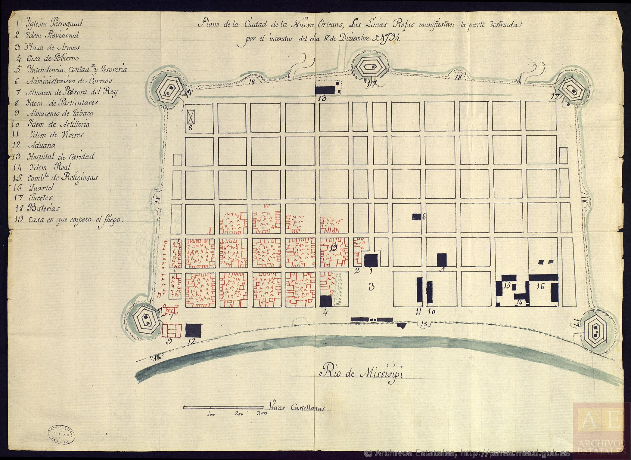 Manuscript map entitled "Plano de la Ciudad de la Nueva Orleans, las Linias Rojas manifiestan la parte destruida por el incendio del dia 8 de Diziembre de 1794", i.e. Plan of the City of New Orleans, the red lines indicate the part destroyed by the fire of 8 December 1794. Preserved at the Archivo General de Indias (Seville, Spain), MP-FLORIDA_LUISIANA,150BIS. According to the Archive's catalogue, the map was drawn on 11 December 1794.